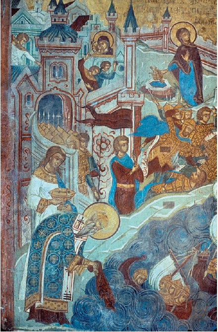 Fresco about events in Rus'-Byzantine War (860). As the story goes, after Michael and Photius put the veil of the Theotokos into the sea, there arose a tempest which dispersed the boats of the Rus barbarians.